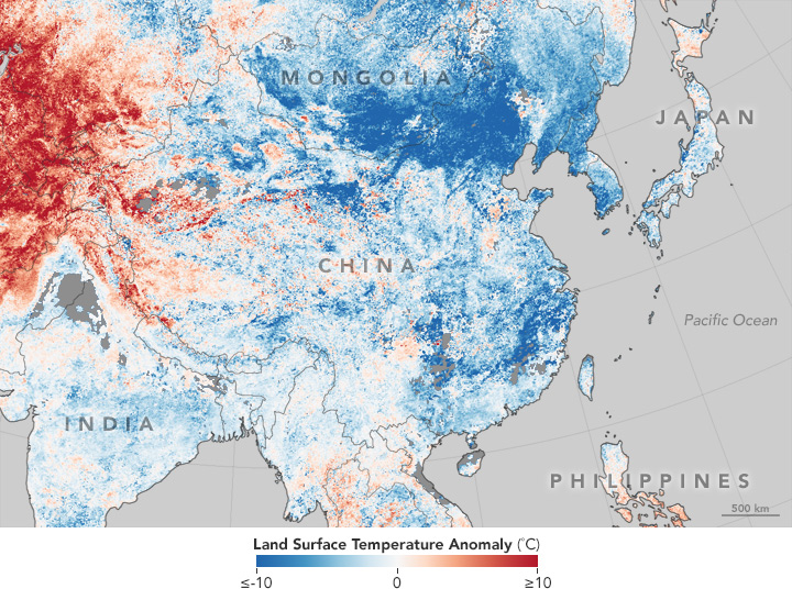 This temperature anomaly map is based on data from the Moderate Resolution Imaging Spectroradiometer (MODIS) on NASA’s Terra satellite. It shows land surface temperatures (LSTs) from January 17–24, 2016, compared to the 2001–2010 average for the same eight-day period.